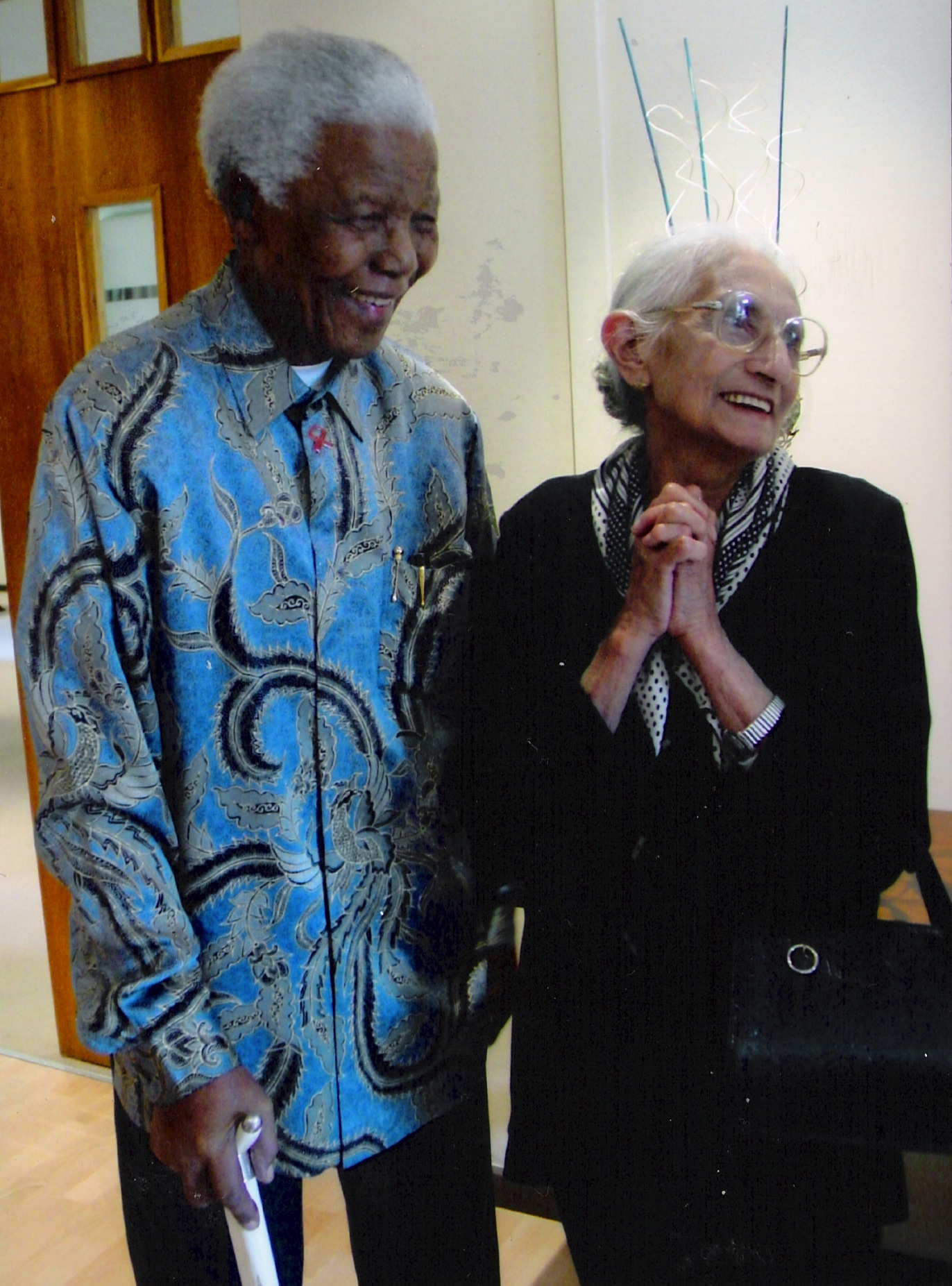 A photo of Amina Desai, South Africa's longest serving female Indian political prisoner, during a meeting with Nelson Mandela